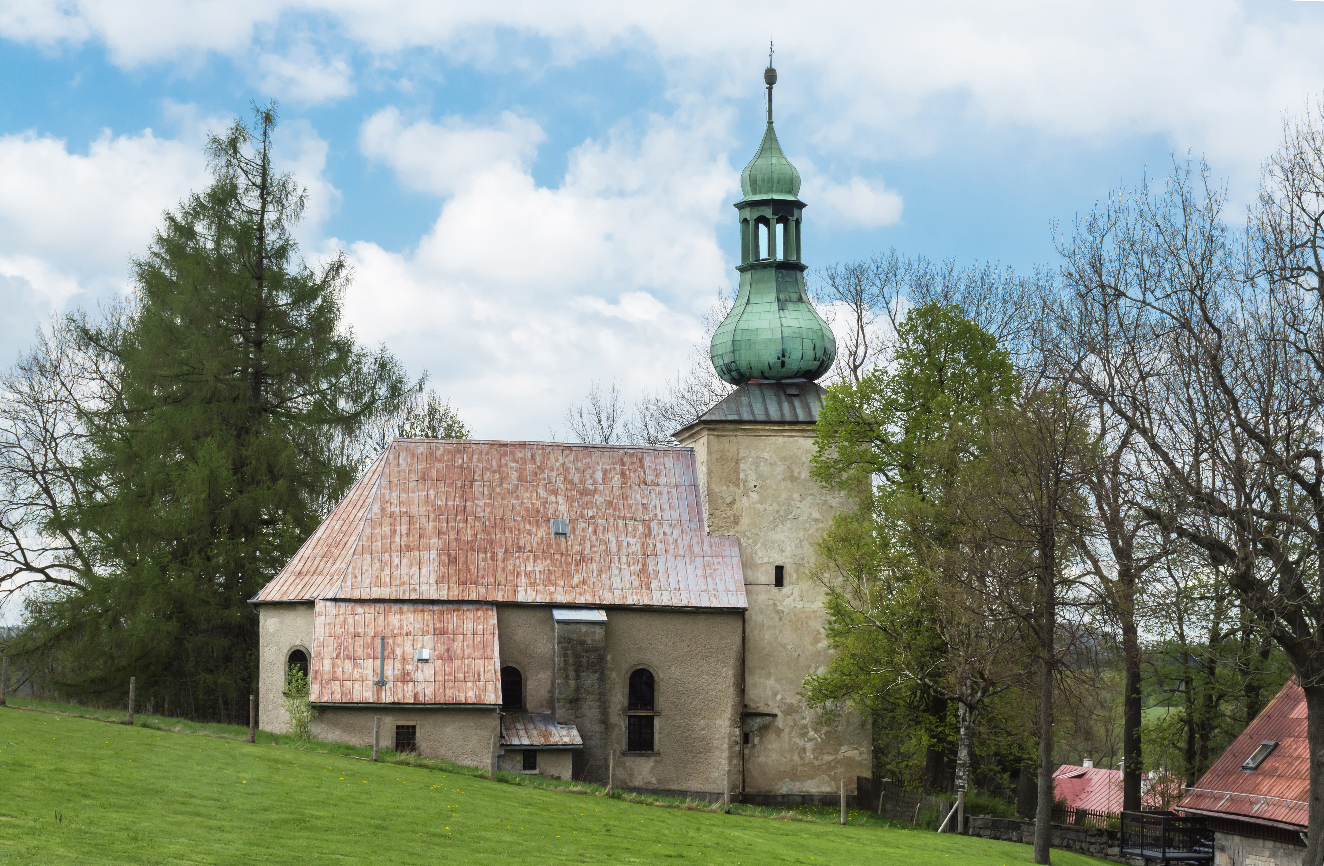 Saint John the Baptist church in Pasterka